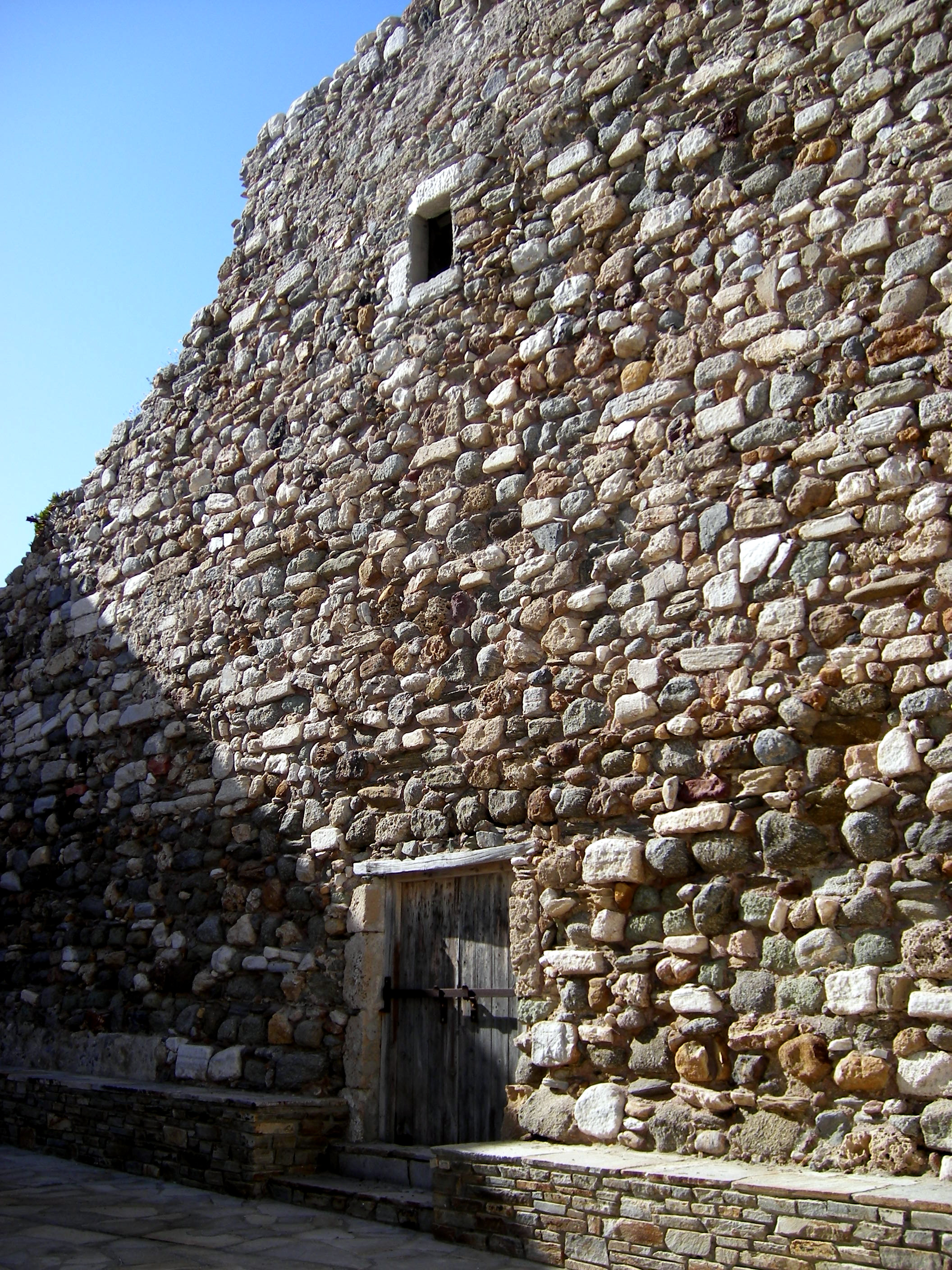 Venetian Castle, Sanudo's Keep, Naxos town, Naxos / Forteresse vénitienne, Donjon Sanudo, Chora, Naxos